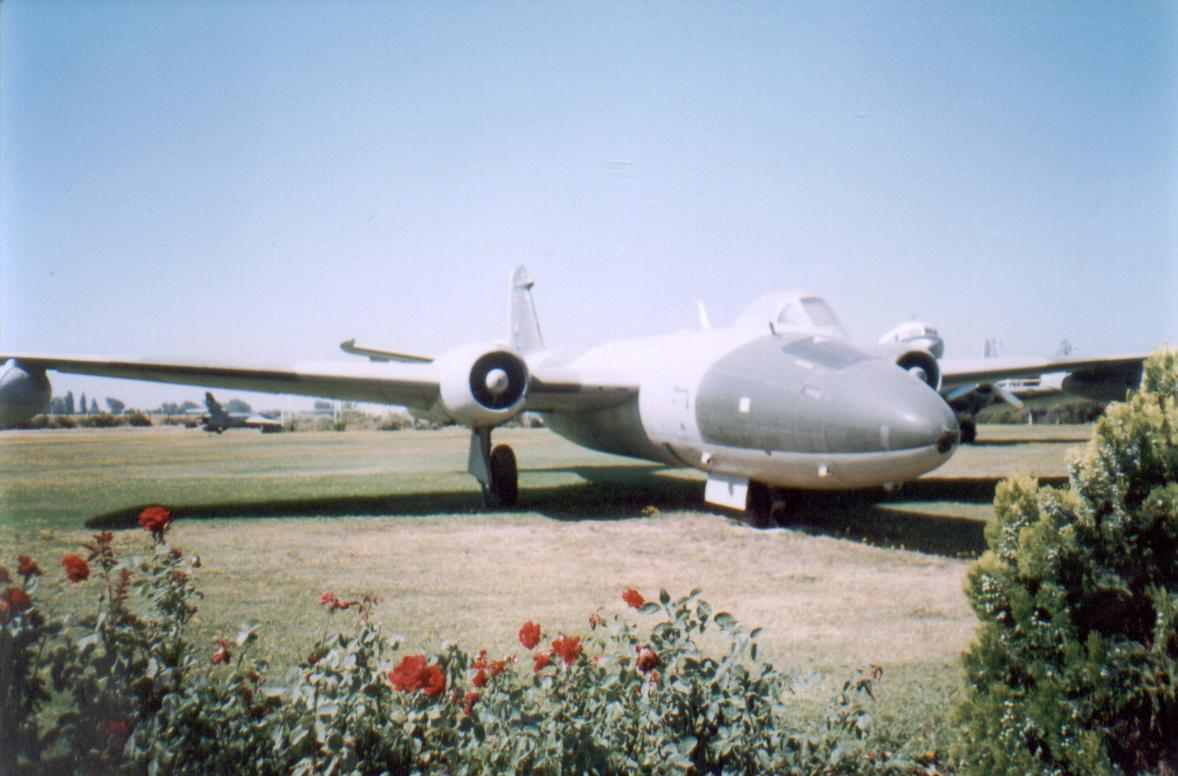 English Electric Canberra bomber belonging to the Chilean air force, Chile's Aeronautical Museum.